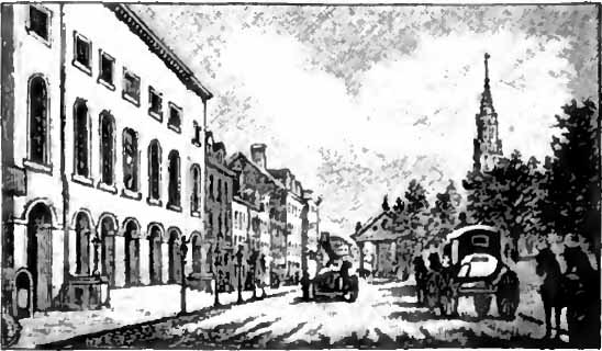 The old Park Theatre of New York City (Manhattan), a wooden, barn-like structure, fronting about eighty feet on Park row, and rising to the height of sixty or seventy feet, painted in imitation of blocks of granite.